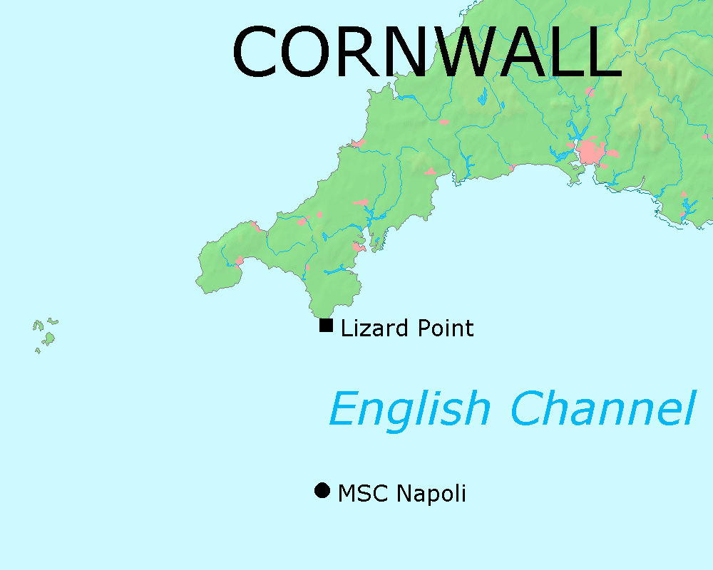 The map is based on File:Map of Cornwall.png on Commons. The position of the distressed MSC Napoli container ship was determined by applying the intercept theorem to a BBC map (_42465905_lizard_pt_map203.gif).